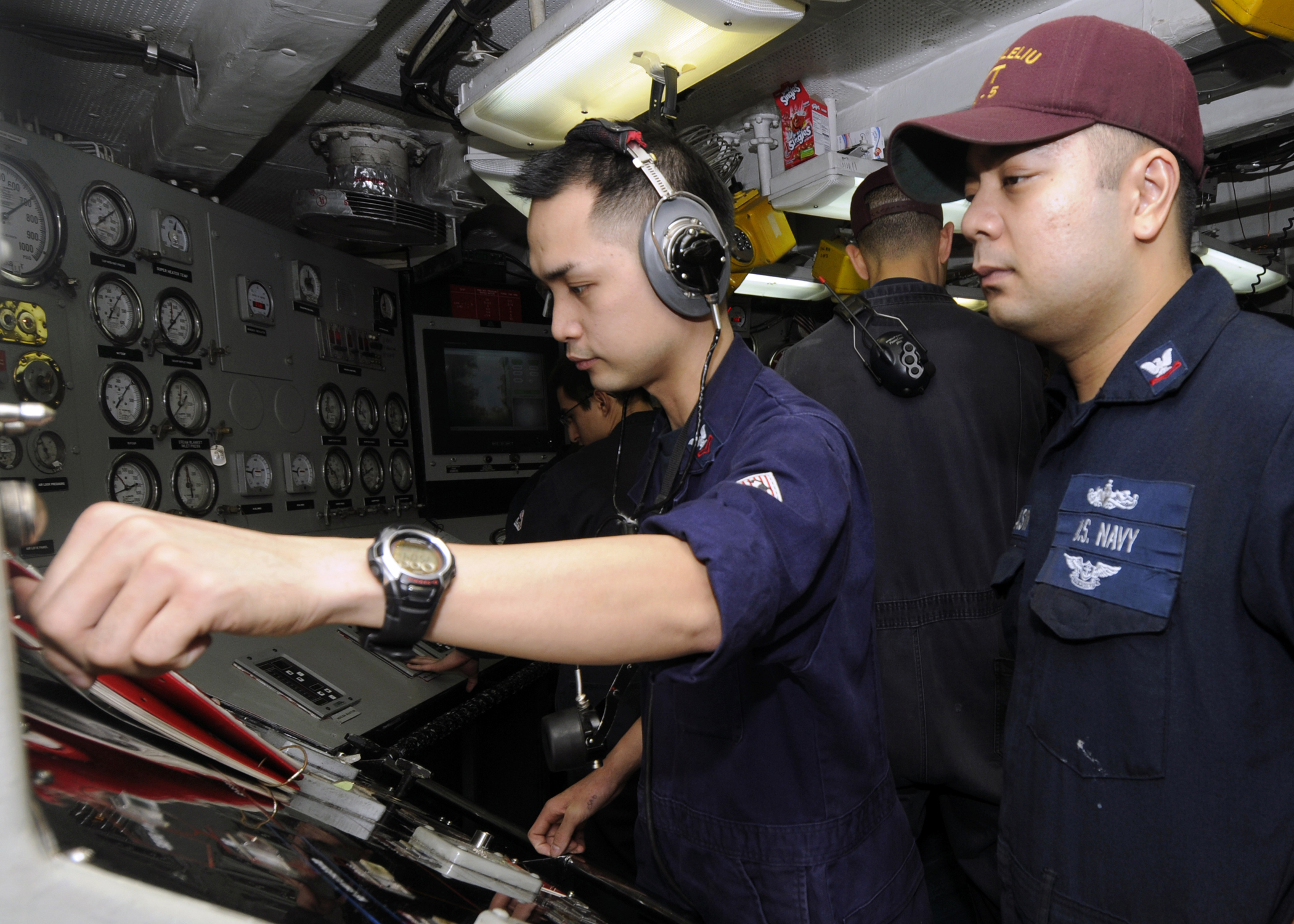 ARABIAN SEA (Sept. 27, 2010) Electrician's Mate 2nd Class Ryan Manalo, left, conducts an electrical ground test under the supervision of Engineering Training Team member Electrician's Mate 2nd Class Roel Villasin during engineering training evolutions aboard the amphibious assault ship USS Peleliu (LHA 5). Peleliu is the command ship of the Peleliu Amphibious Ready Group supporting maritime security operations and theater security cooperation efforts in the U.S. 5th Fleet area of responsibility. (U.S Navy photo by Mass Communication Specialist 2nd Class Andrew Dunlap/Released)